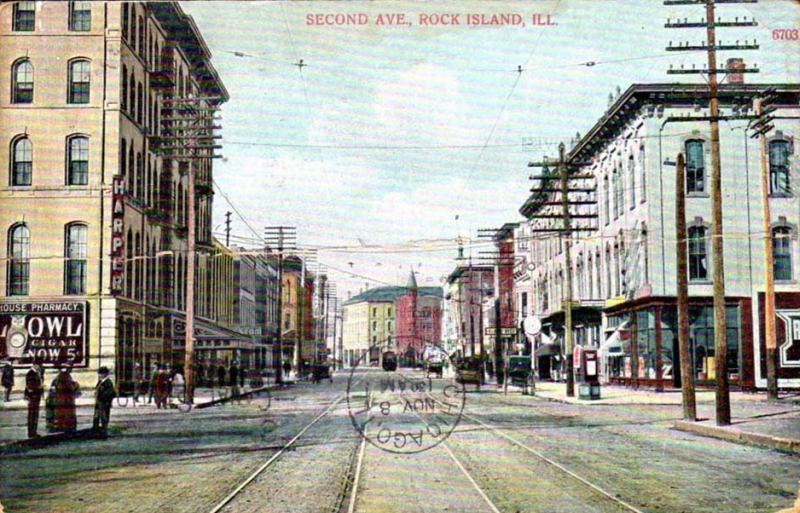 Second Ave (looking west), Rock Island, IL. On the left the hotel Harper House.